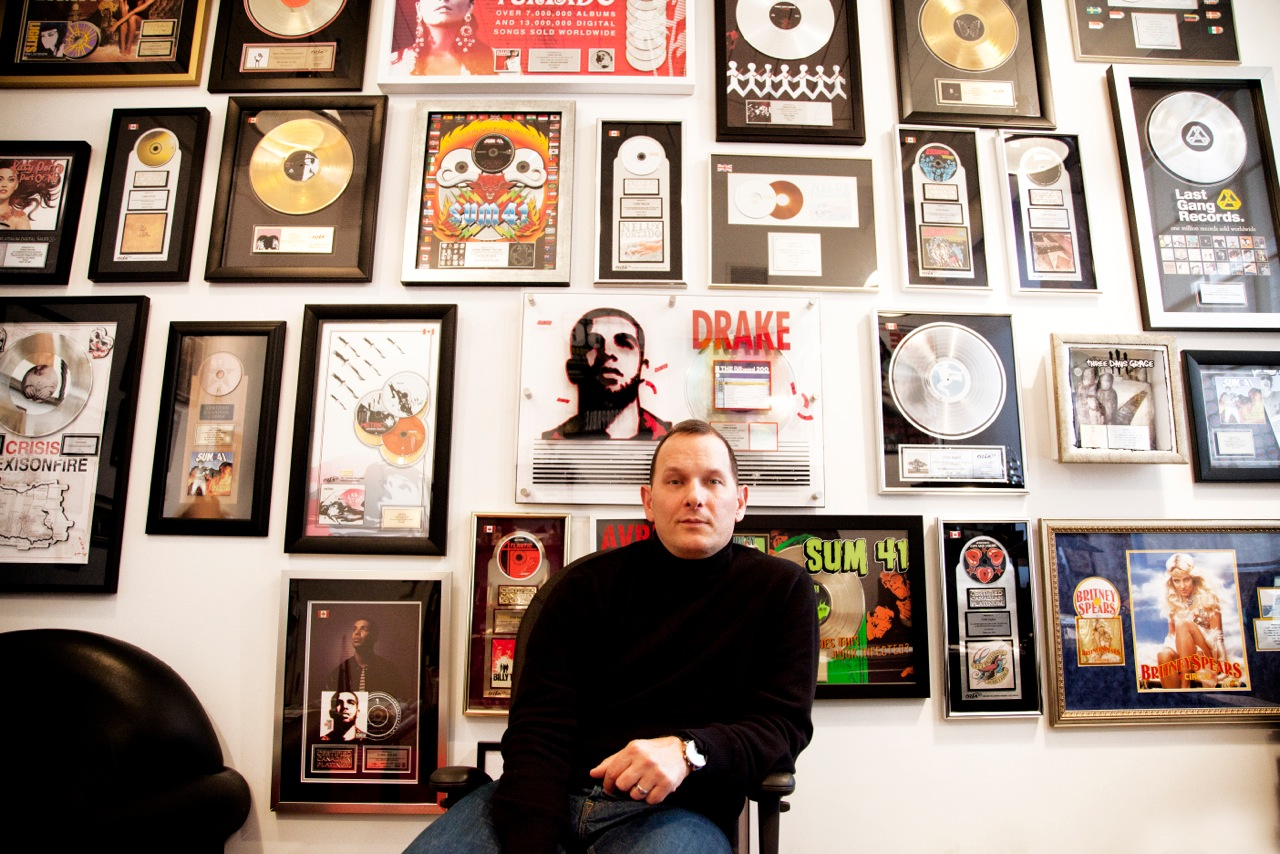 Chris Taylor - Plaques